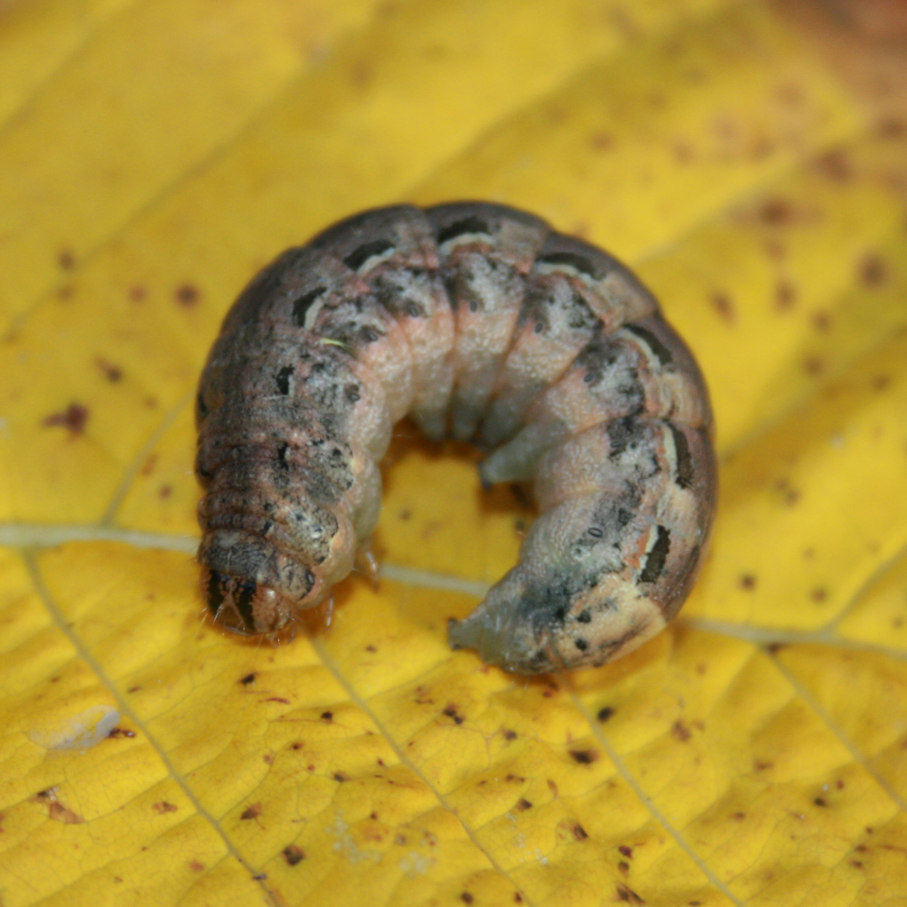 Caterpillar of White-point (Mythimna albipuncta) found at the beginning of November in leaves of a Horse-chestnut in Otterndorf, Northern Germany. The caterpillar winters.